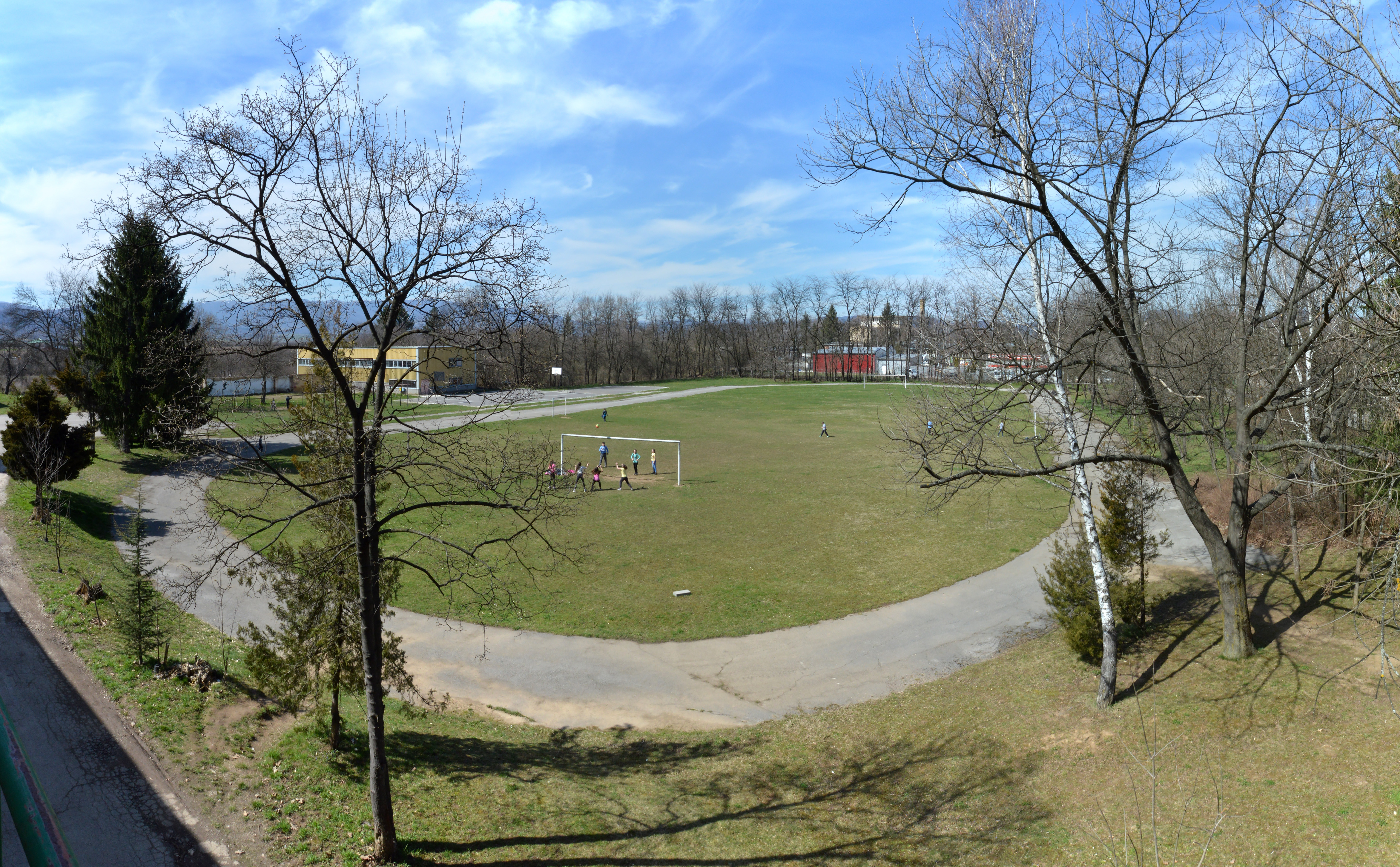 The playing field of Gymnasium "Asen Zlatarov" in Botevgrad, Bulgaria.